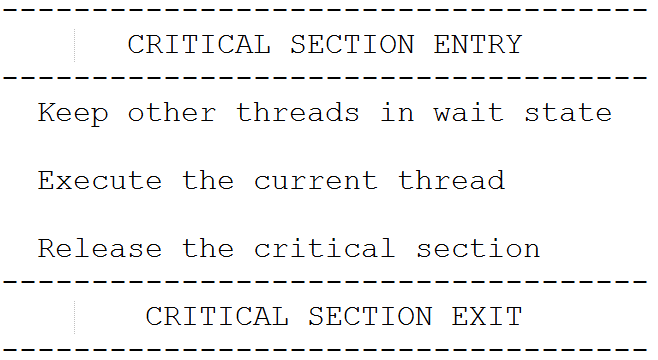 Pseudo code for critical section